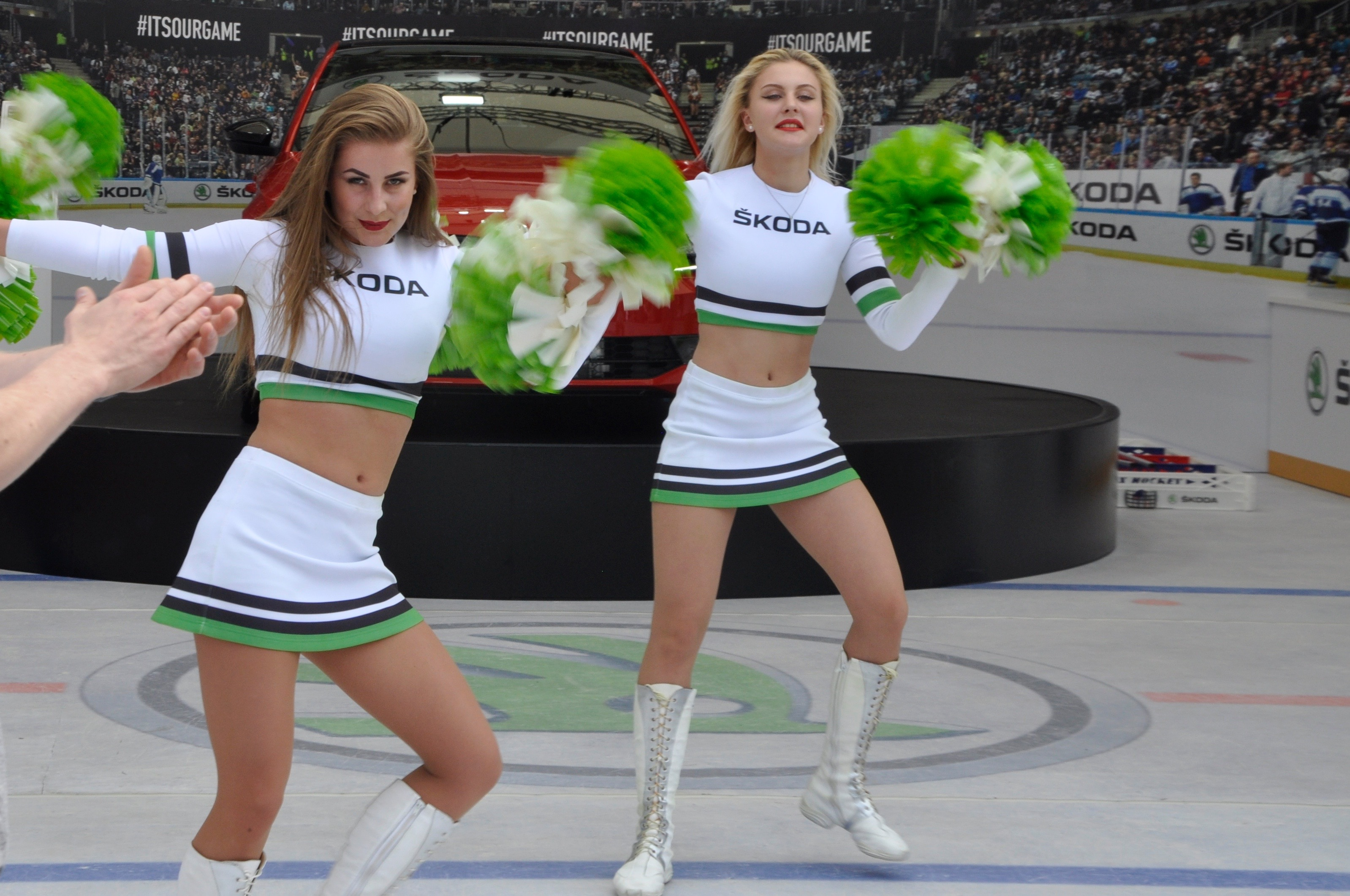 Ice hockey World Championship 2017 in Cologne 19.5 - 22.5.2017 Foto Mats Adamczak